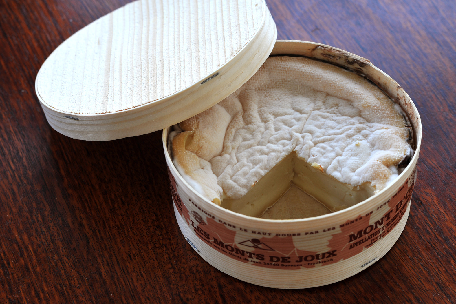 Vacherin Mont d'Or in its typical Norway spruce box with a ribbon of bark.